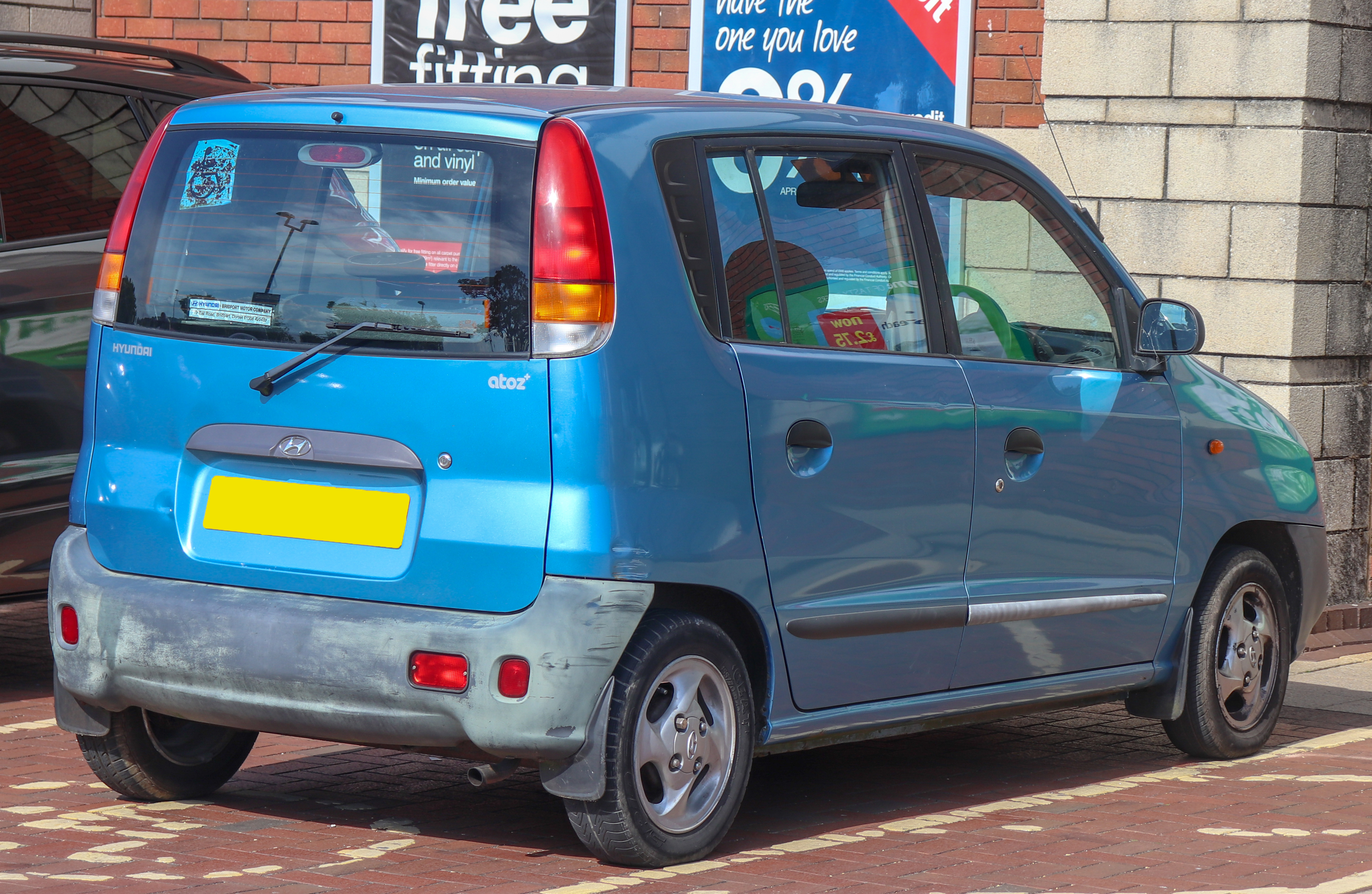 2000 Hyundai Atoz+ Automatic 1.0 Rear Taken in Weymouth, Dorset